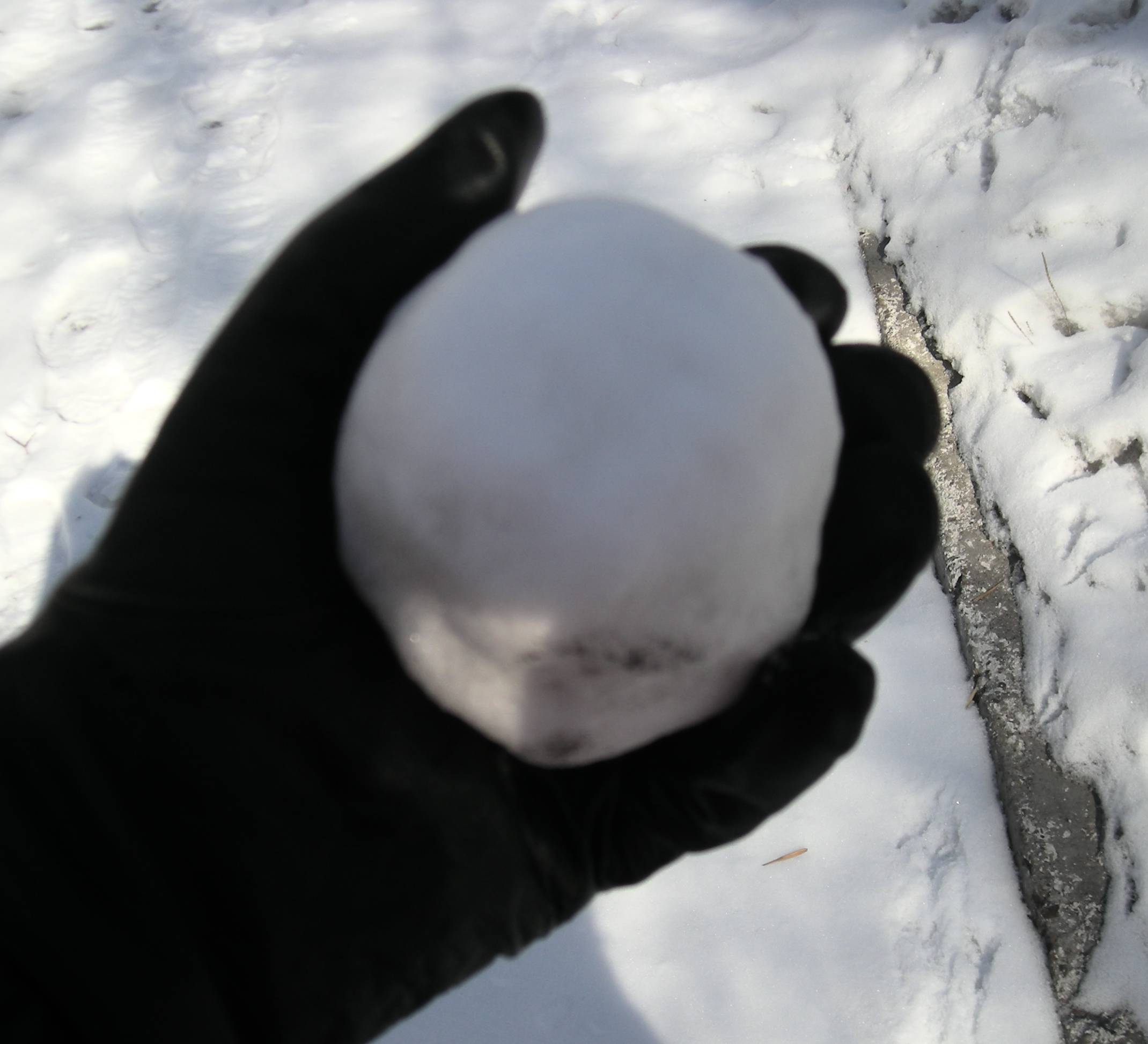 The Snowball